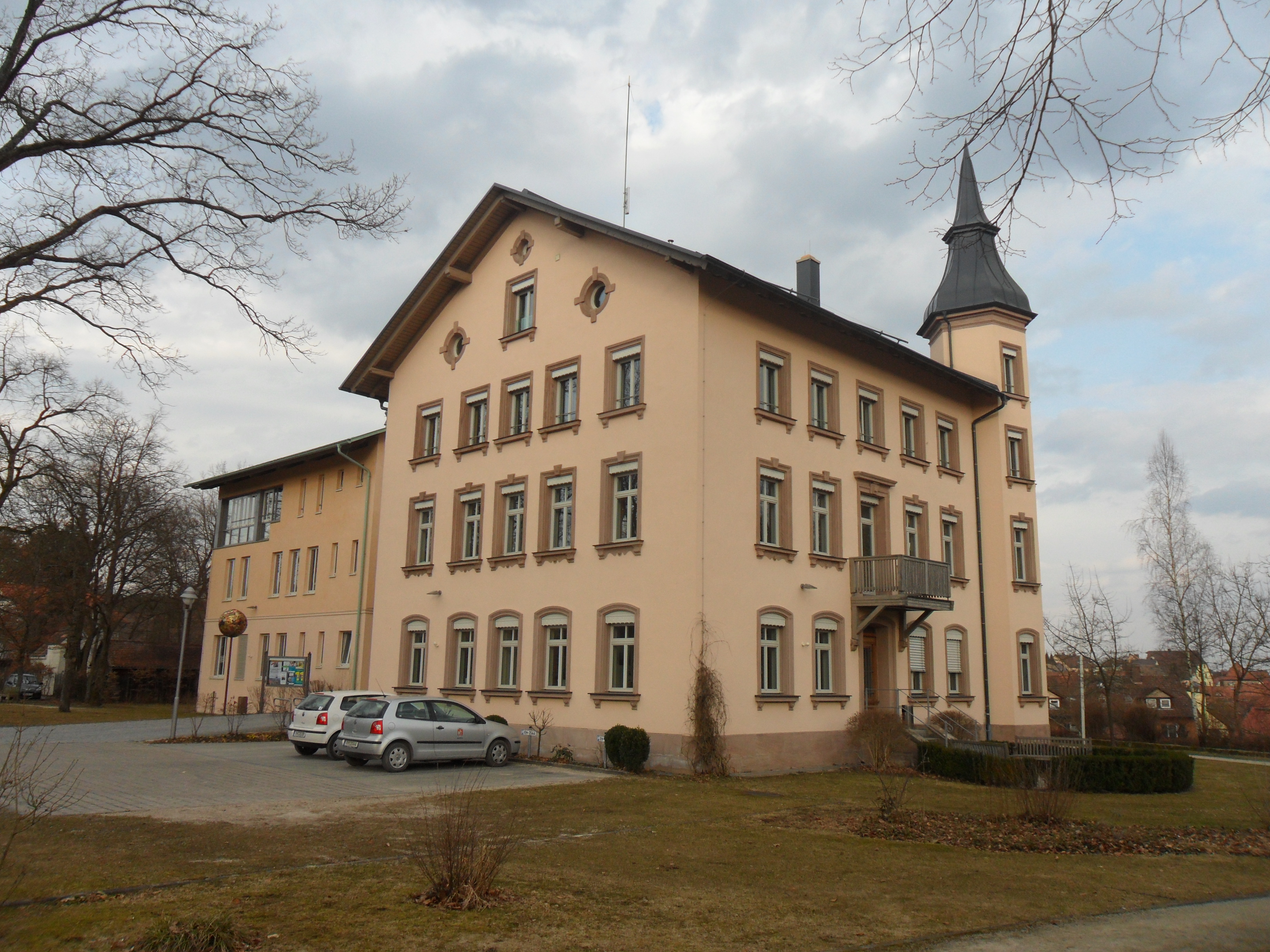 The New City Hall of Wendelstein is located in a former hotel on the Schwabacher Strasse 8.